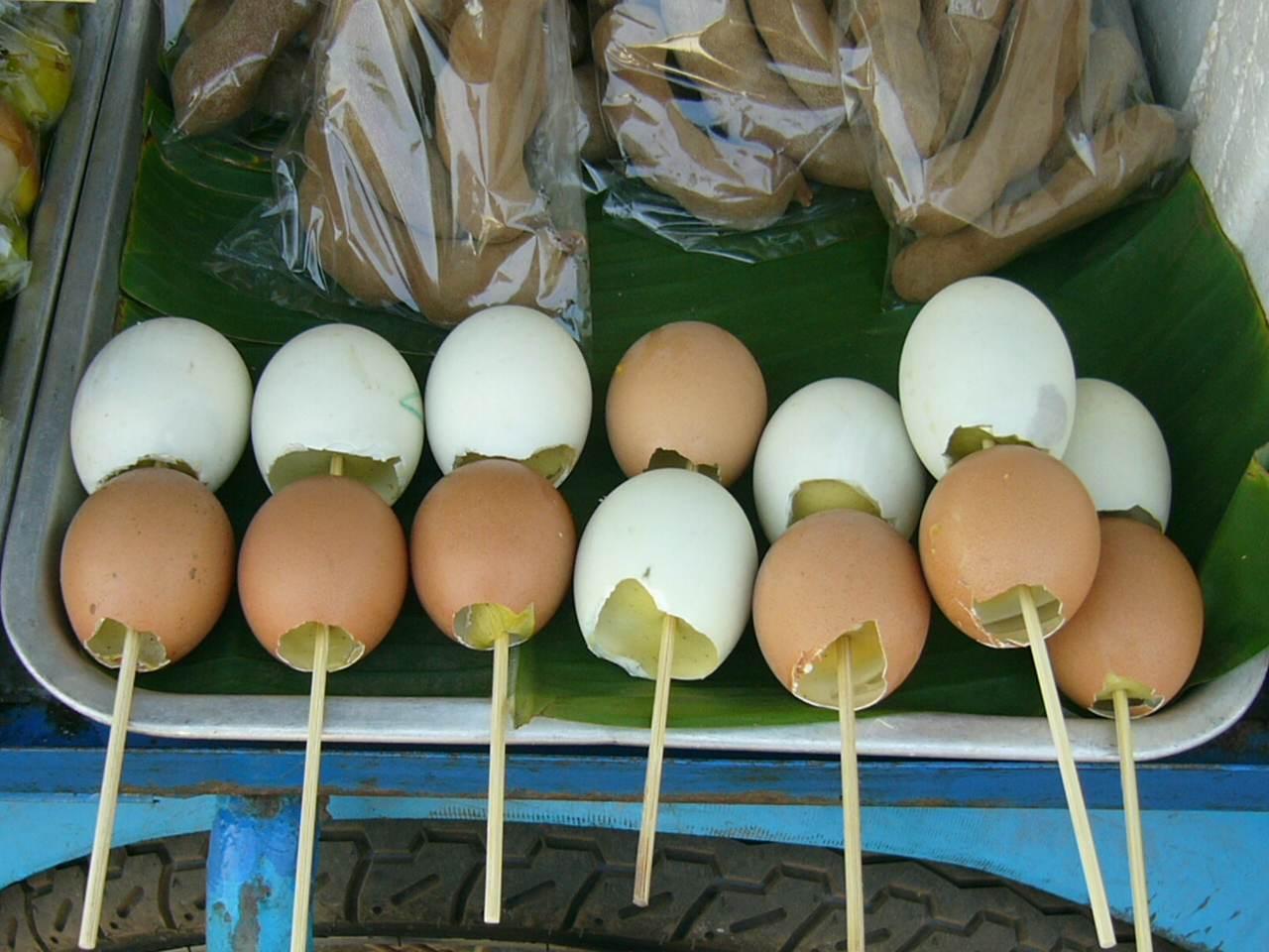 Cooked chicken eggs on a stick, seen in Thailand.